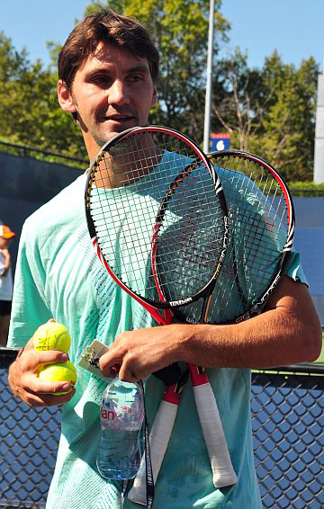 Amer Delić attending the 15th Annual Arthur Ashe Kids Day on August 28, 2010 at Billie Jean King Stadium in Queens, New York.